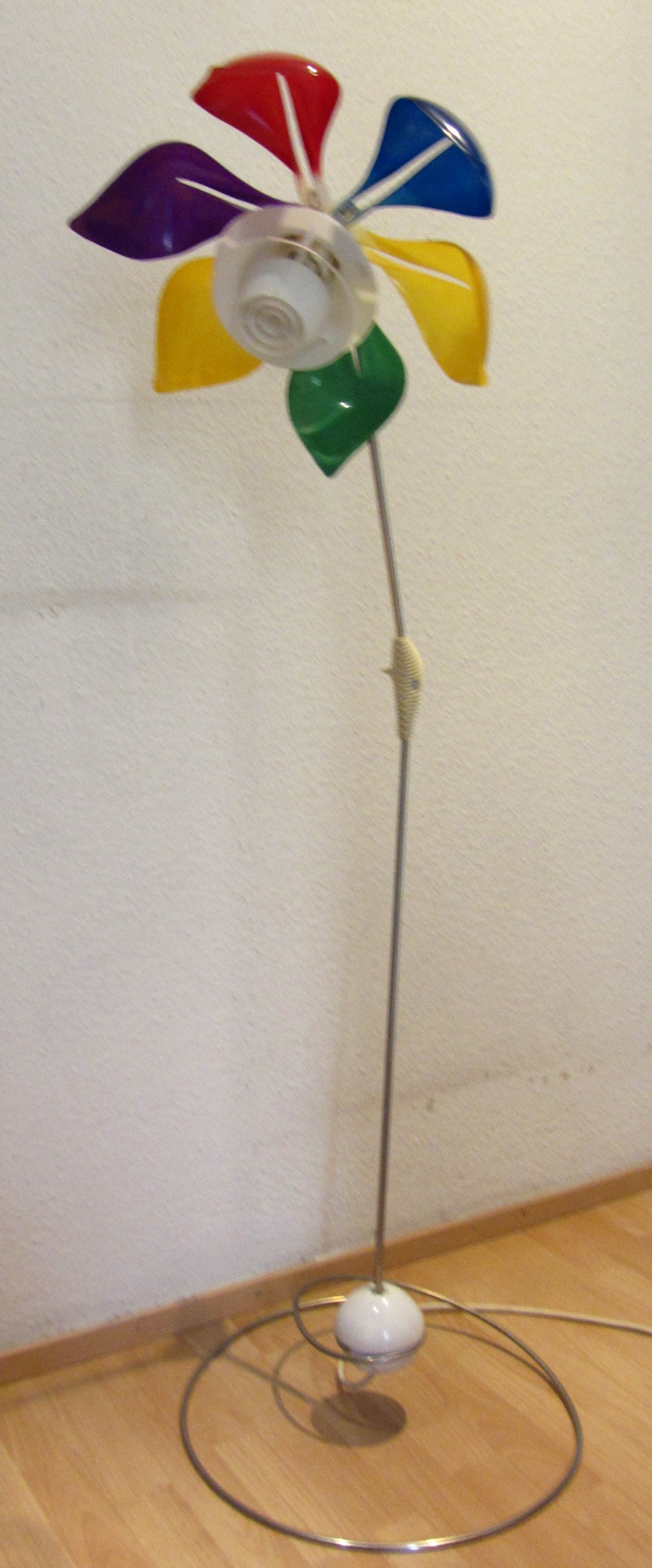 Standing lamp "Ssymmank" from German Designer Günther Ssymmank